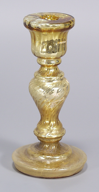 Golden mercury glass candlestick.